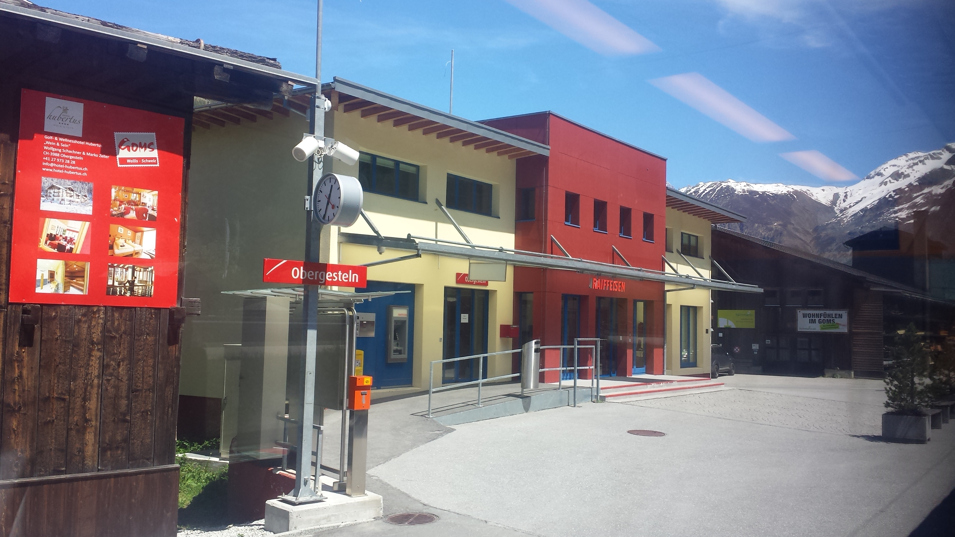 The station building of Obergesteln station, on the Matterhorn-Gotthard-Bahn and in the Obergoms municipality of the Swiss canton of Valais.